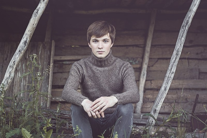 Musician Anton Malinen, photo in woods